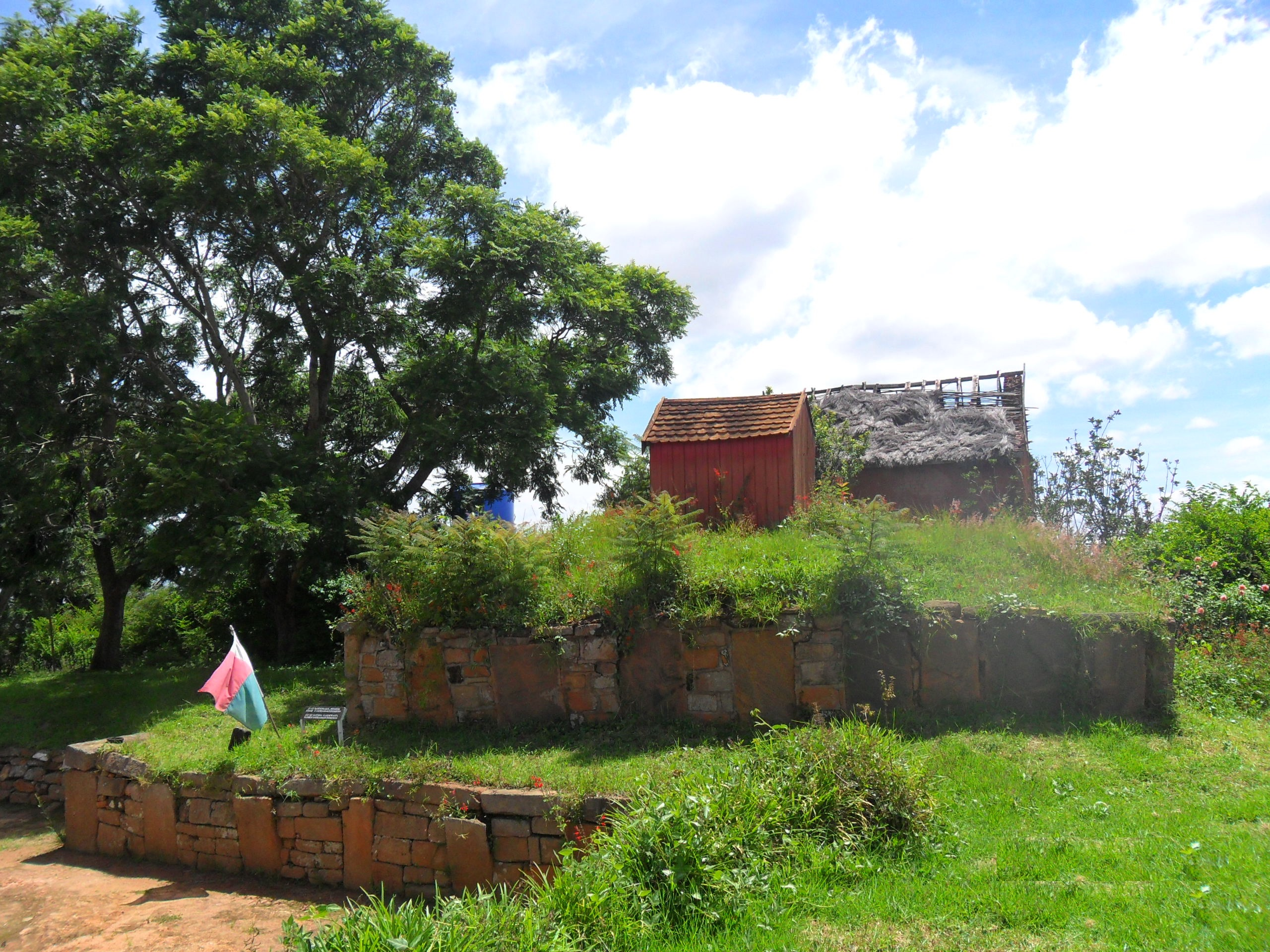 Surmonté d'une case froide de couleur rouge ou " trano manara", le tombeau de Rasendrasoa , la grande épouse du Roi Andrianampoinimerina est bâti dans l'enceinte royale de la colline sacrée d'Ambohidrabiby. Avant de devenir la grande épouse d'Andrianampoinimerina, Rasendrasoa, fille d'Andriamanitrirazaka , résidait à Ambohitsoa , village des descendants d'Andriampolofantsy.